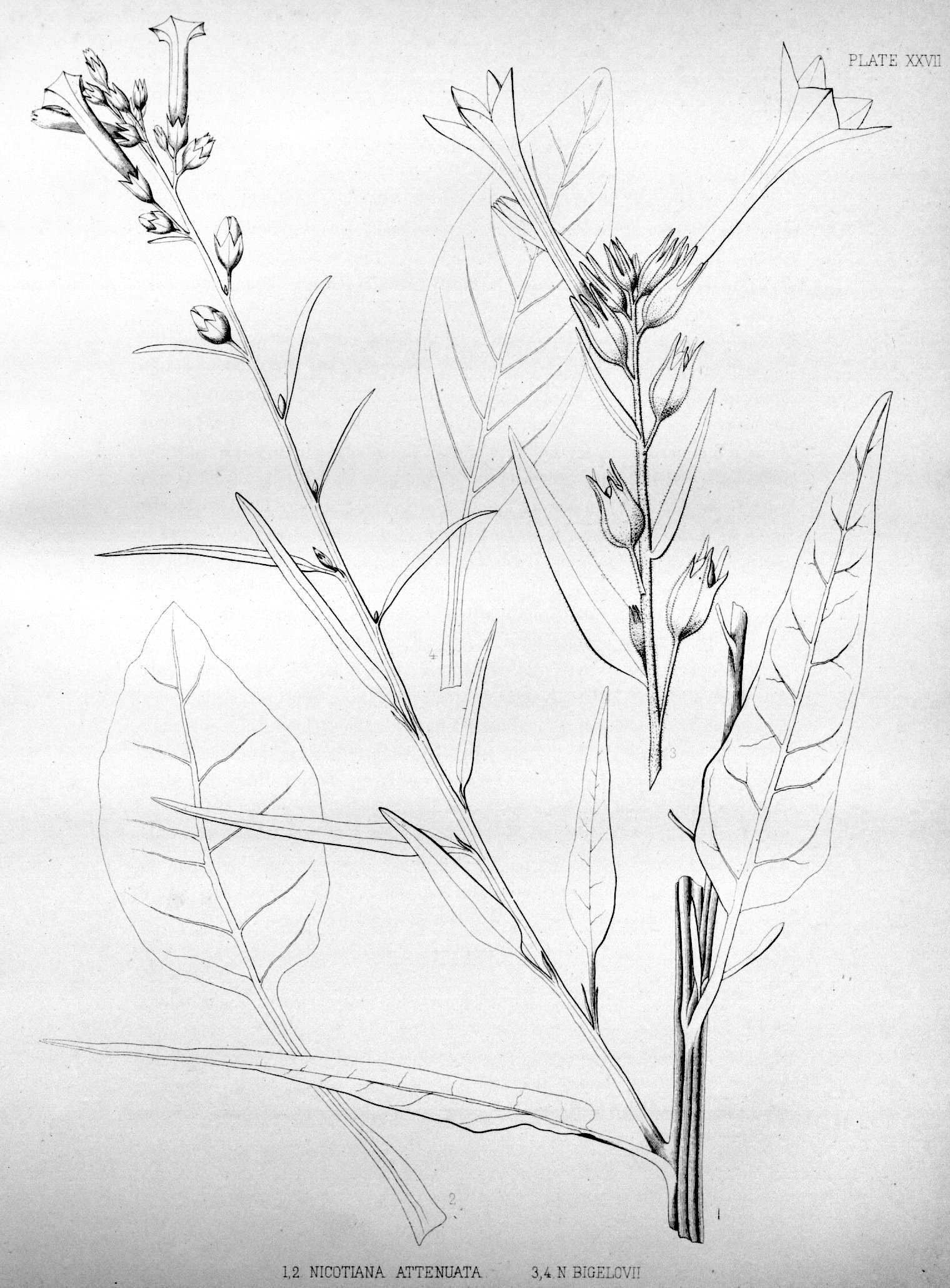 Illustration of Nicotiana attenuata and Nicotiana bigelovii (= Nicotiana quadrivalvis) from: Sereno Watson: United States Geological Exploration of the Fortieth Parallel, Volume 5: Botany. Plate XXVII.